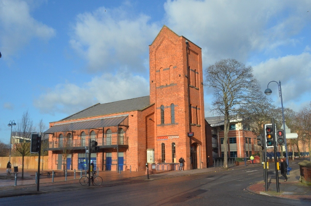 GCR Goods Yard Hydraulic house